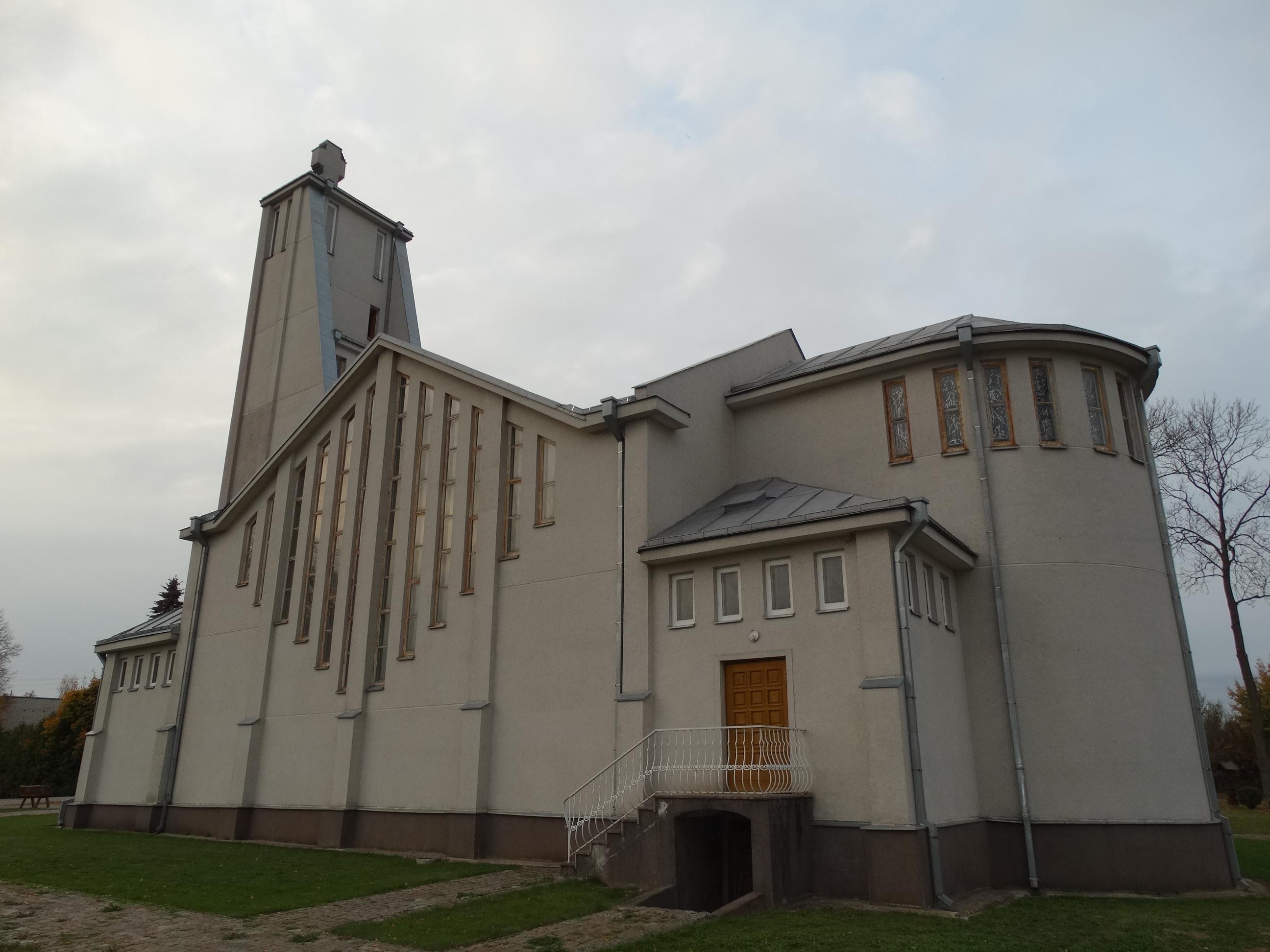 Roman Catholic Church of Saint Casimir, Kučiūnai, Lazdijai district, Lithuania